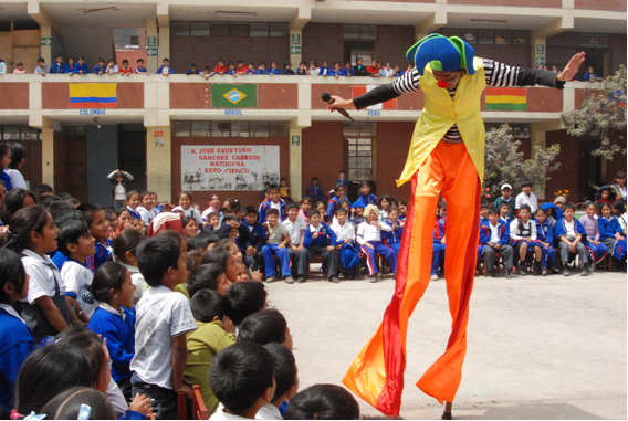 Campaña en los colegios de Huaycán para sensibilizar a los niños sobre la importancia de estar registrados